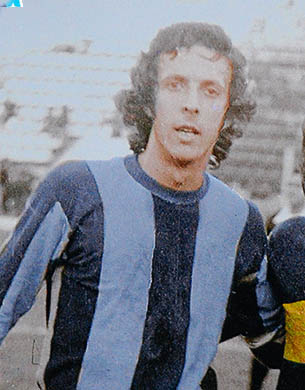 Argentine footballer Antonio Carbognani with San Telmo colors, before playing Boca Juniors in Parque Patricios for the Primera División championship. San Telmo won by 3-1, achieving one of the most important wins in club's history.